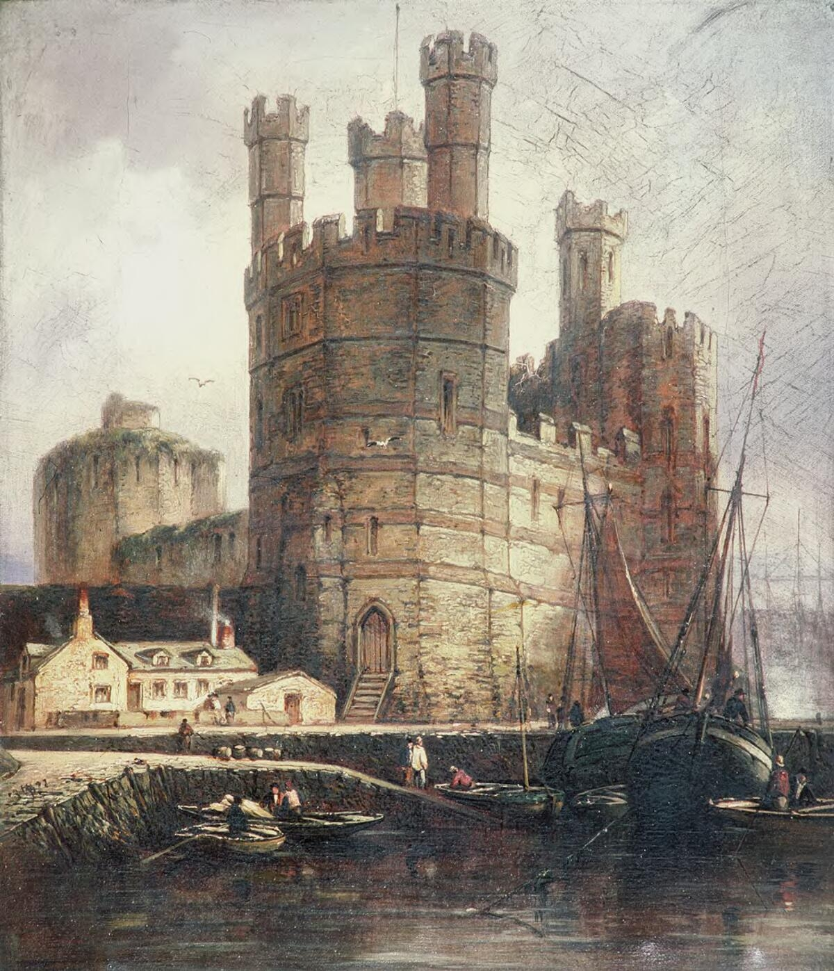 A painting from the Framed Works of Art collection at the National Library of wales.